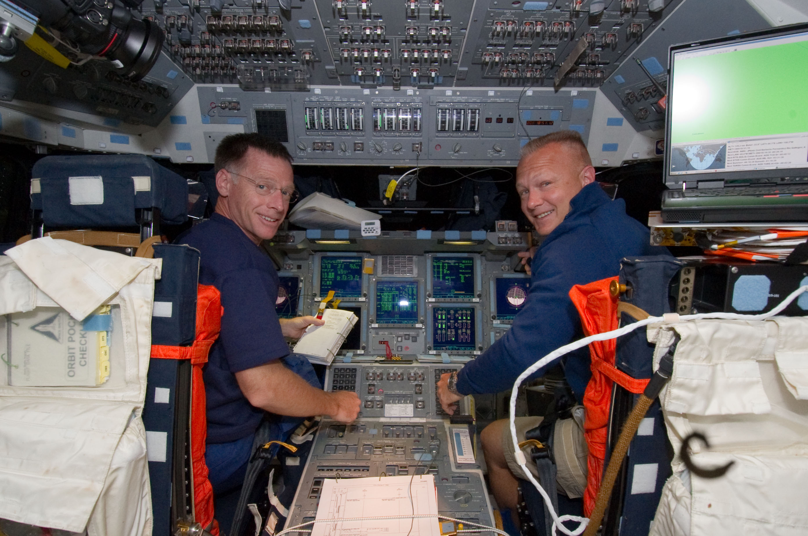 NASA astronauts Chris Ferguson, left, and Doug Hurley are pictured at the commander's station and pilot's station, respectively, on the flight deck of the space shuttle Atlantis during the mission's second day of activities in Earth orbit.